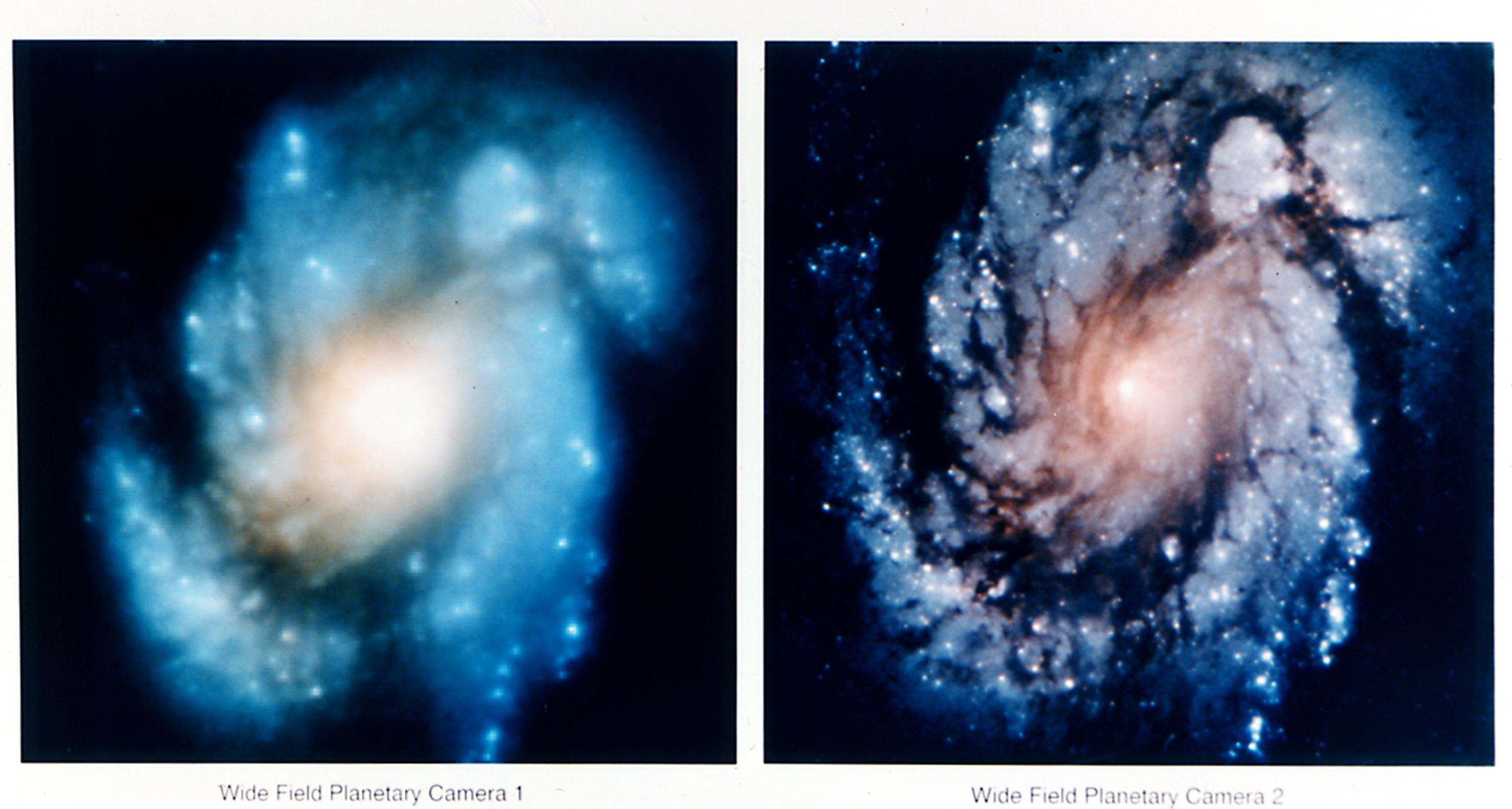 This comparison image of the core of the galaxy M100 shows the dramatic improvement in Hubble Space Telescope's view of the universe after the first Hubble Servicing Mission in December 1993. The new image, taken with the second generation Wide Field and Planetary Camera (WFPC-2) installed during the STS-61 Hubble Servicing Mission, beautifully demonstrates that the camera's corrective optics compensate fully for the optical aberration in Hubble's primary mirror. With the new camera, the Hubble explored the universe with unprecedented clarity and sensitivity, and fulfilled its most important scientific objectives for which the telescope was originally built. Image on right: The core of the grand design spiral glazy M100, as imaged by WFPC-2 in its high-resolution channel. WRPC-2's modified optics corrected Hubble's previously blurry vision, allowing the telescope for the first time to cleanly resolve faint structures as small as 30 light-years across in a galaxy tens of millions of light-years away. The image was taken on December 31, 1993. Image on left: For comparison, a picture taken with a WFPC-1 camera in wide-field mode on November 27, 1993, just a few days prior to the STS-61 servicing mission. The effects of optical aberration in HST's 2.4-meter primary mirror blur starlight, smear out fine detail, and limit the telescope's ability to see faint structure. Both Hubble images were "raw," they were not processed using computer image reconstruction techniques that improved aberrated images made before the servicing mission. The Wide Field and Planetary Camera-2 was developed by the Jet Propulsion Laboratory and managed by the Goddard Space Flight Center for NASA's Office of Space Science.